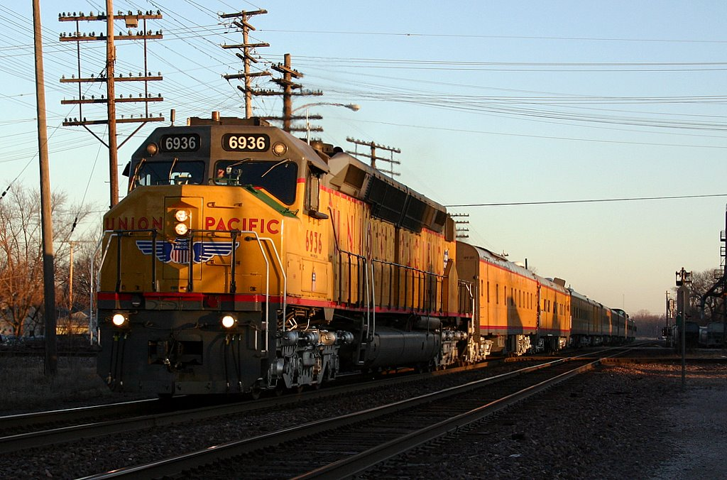 UP's "big boy" / 6936, the last Centennial, roars over the Watseka diamonds, big big big engine. Union Pacific #6936, EMD DDA40X